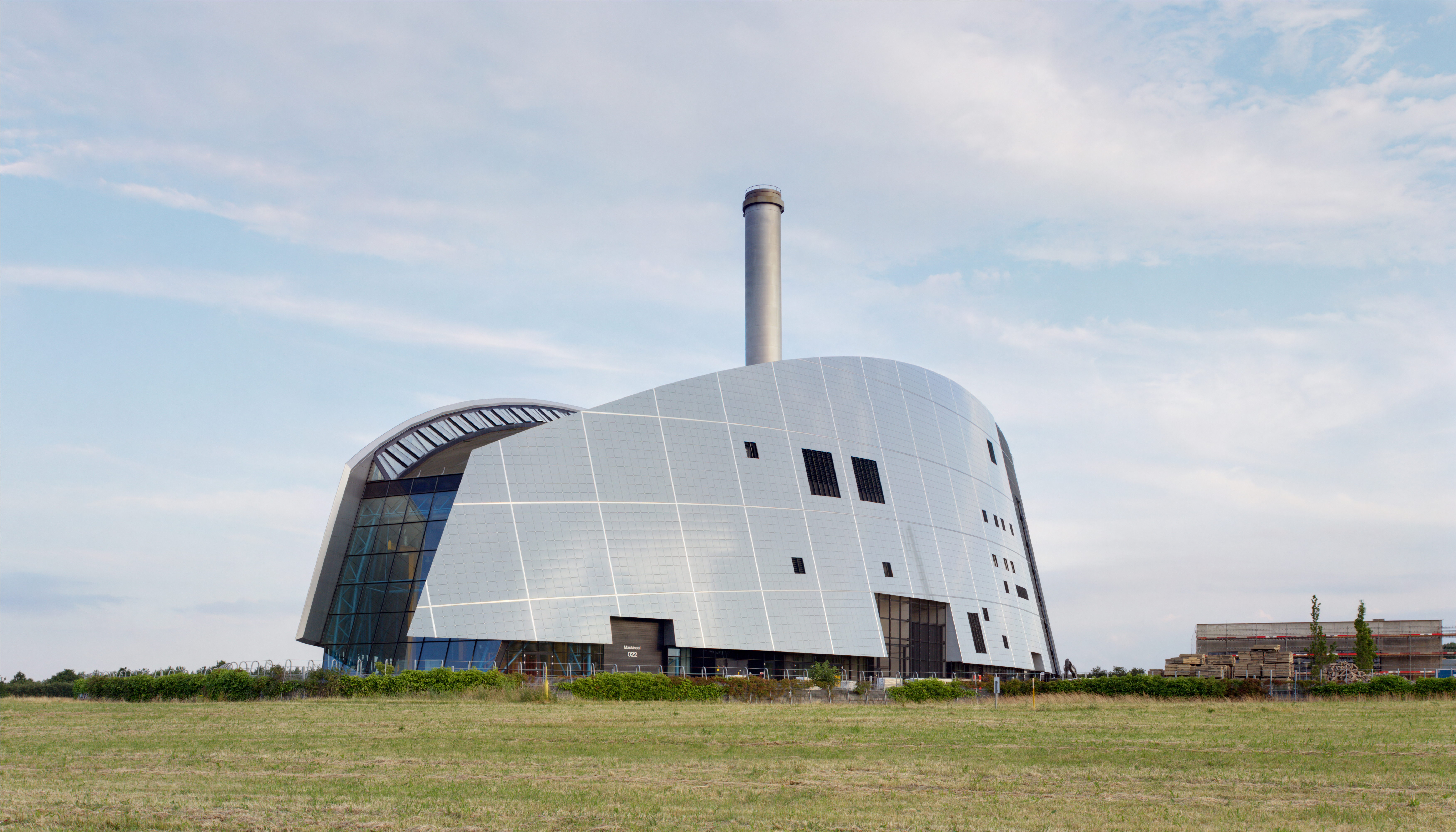 Viborg Power Station. Exposure fused panorama in cylindrical projection.